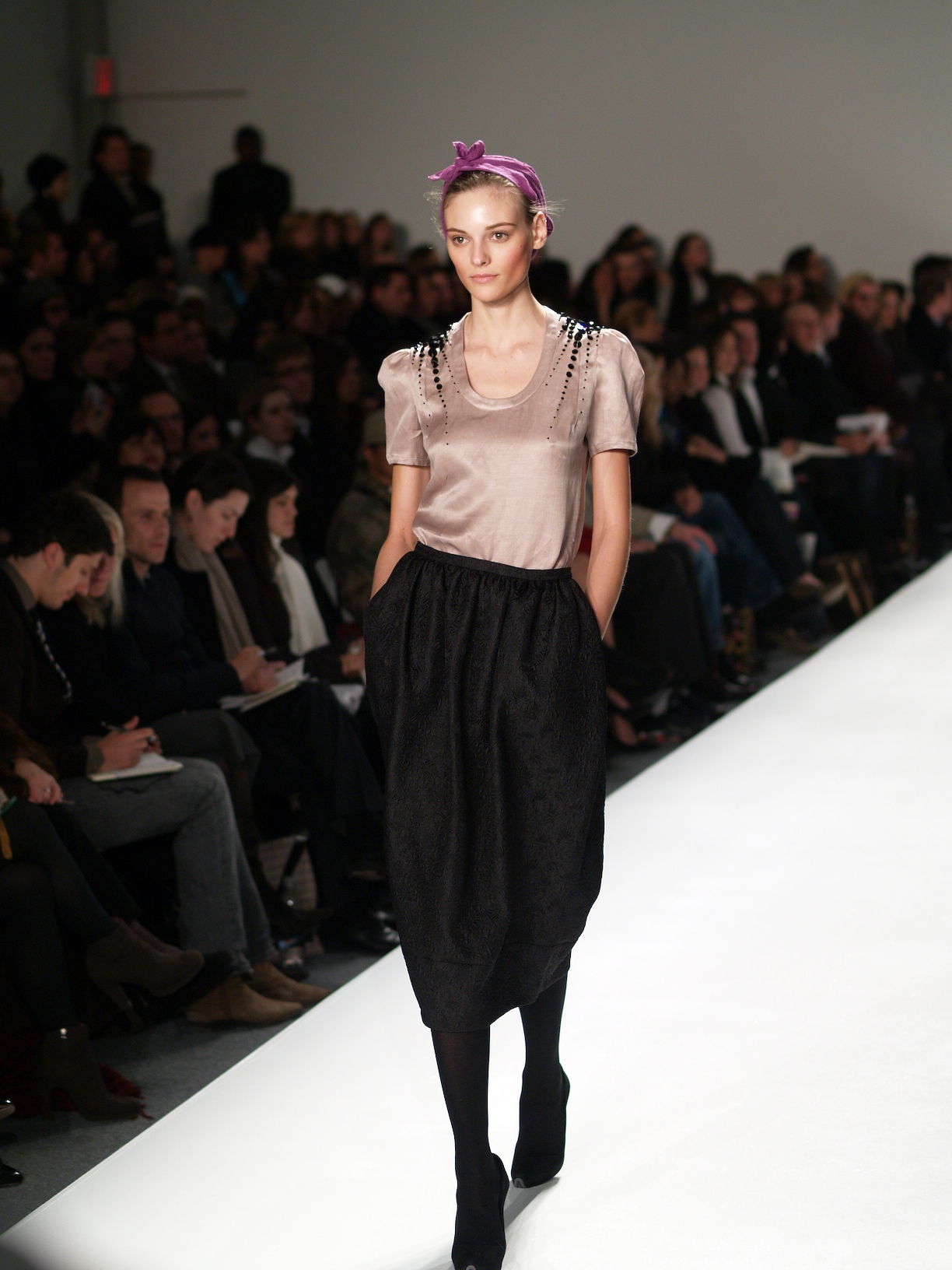 Fabiana Semprebom modeling in Michon Schur Fall 2007 show, New York Fashion Week.